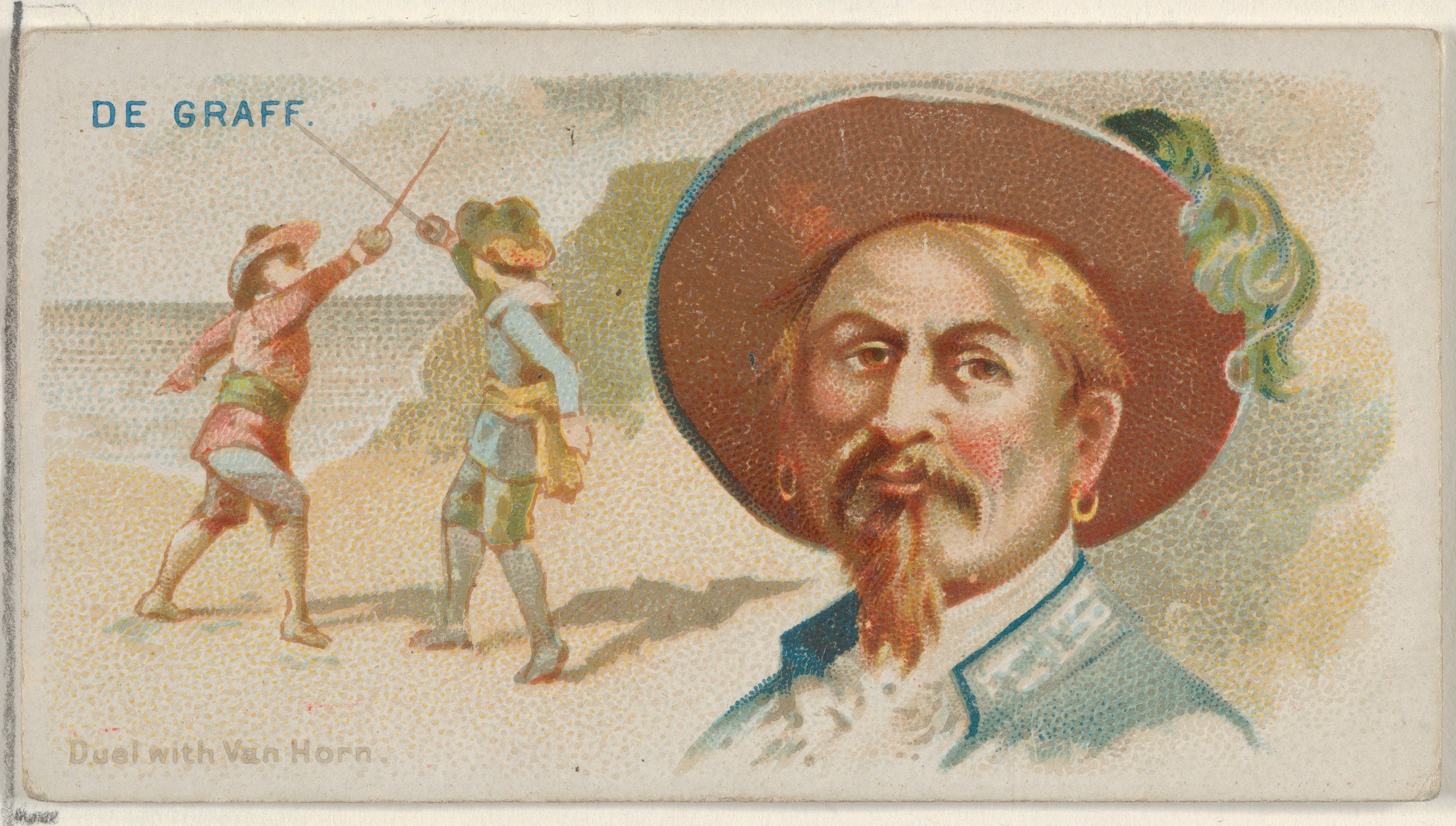 Print; Prints